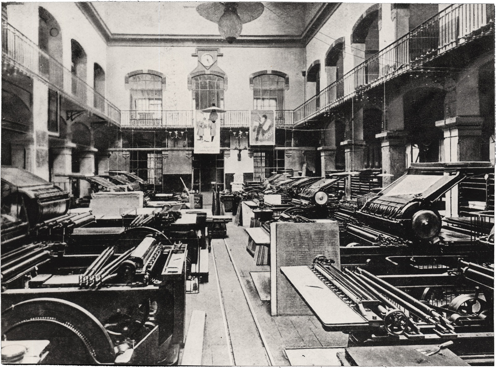 Portrait of Officine Ricordi società. Photo by unknown, Milano, 1904.